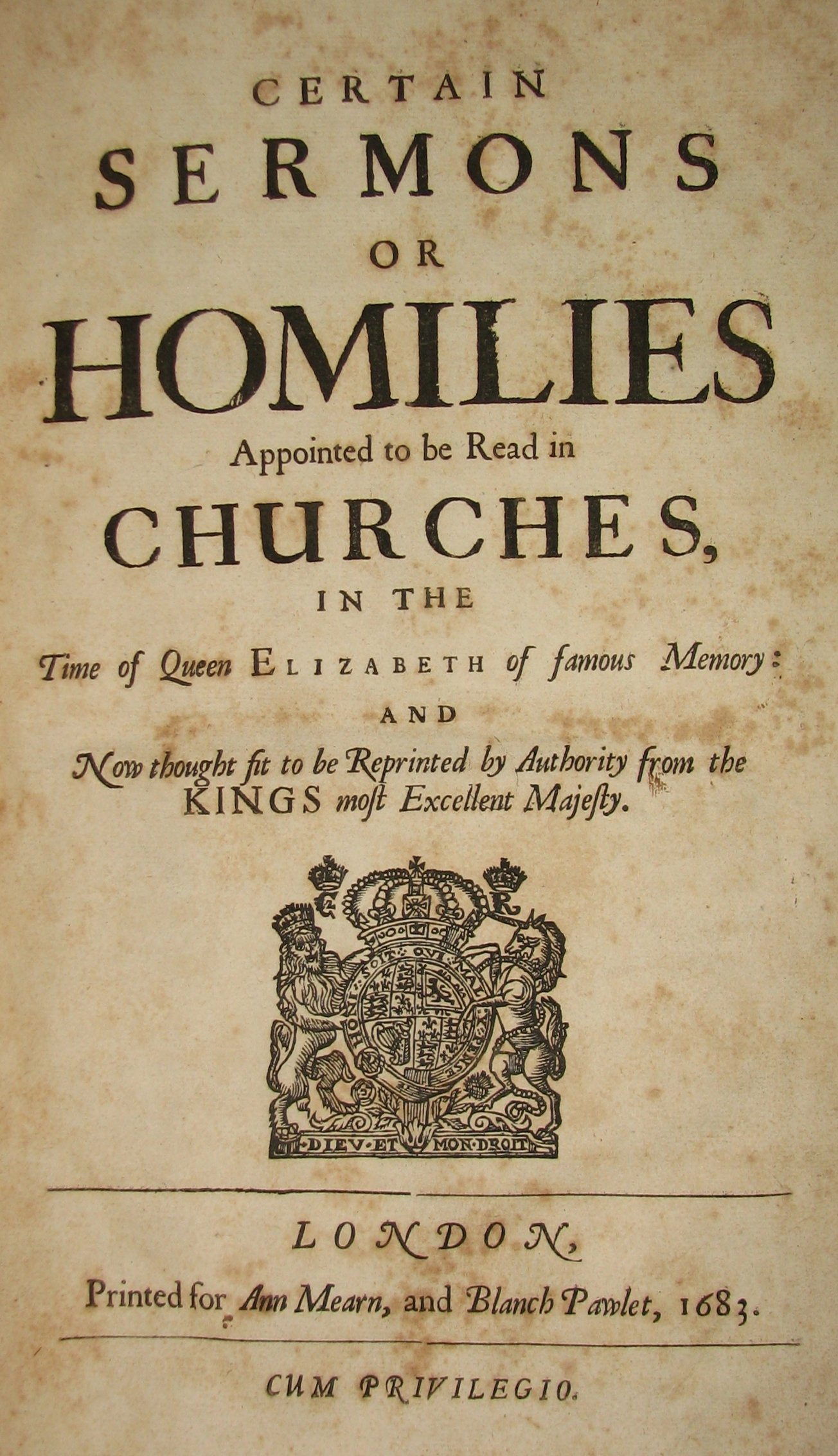 Title page from the 1683 edition of the Elizabethan Sermons or Homilies.